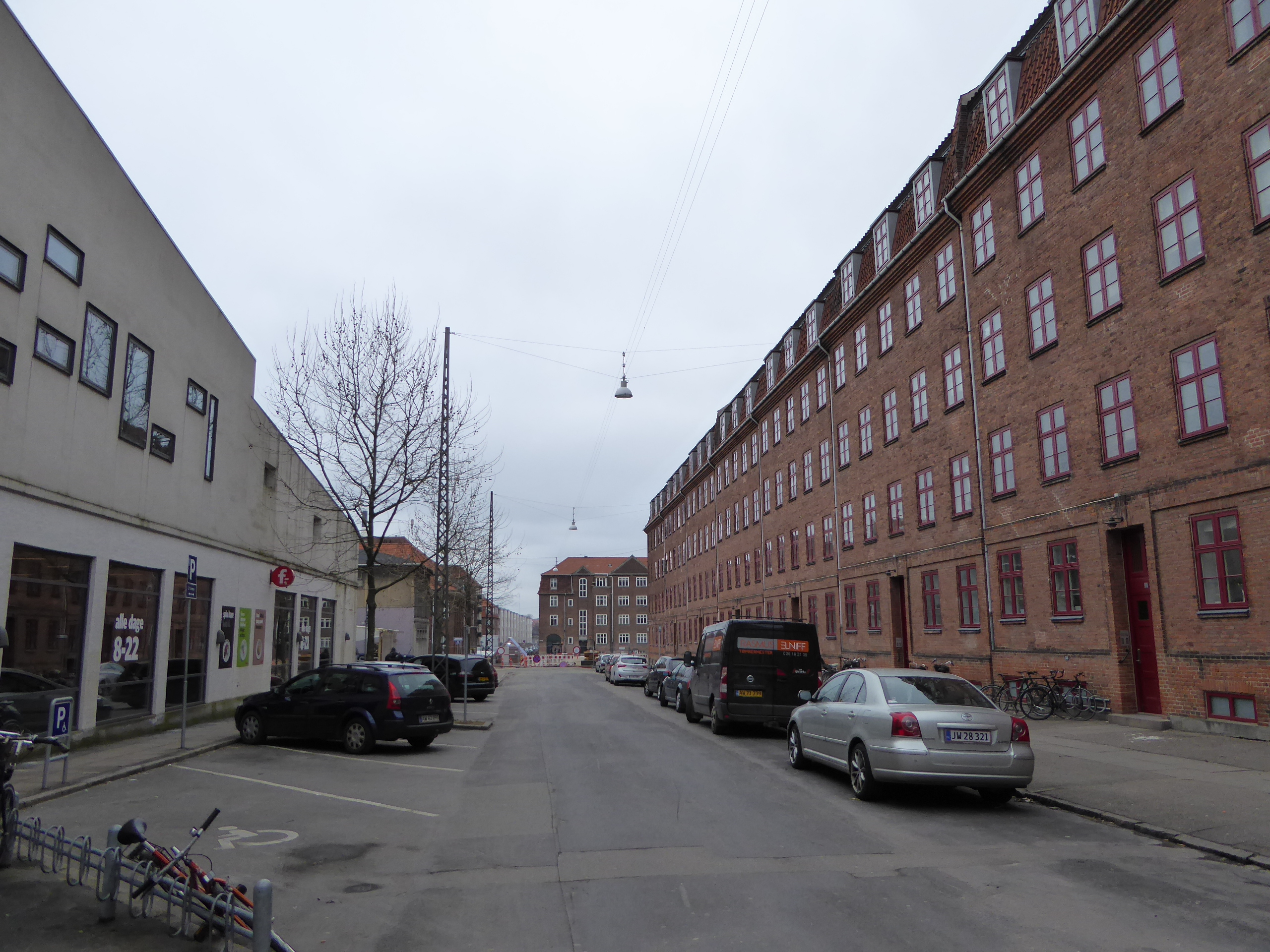 The street Fafnersgade in Nørrebro in Copenhagen.